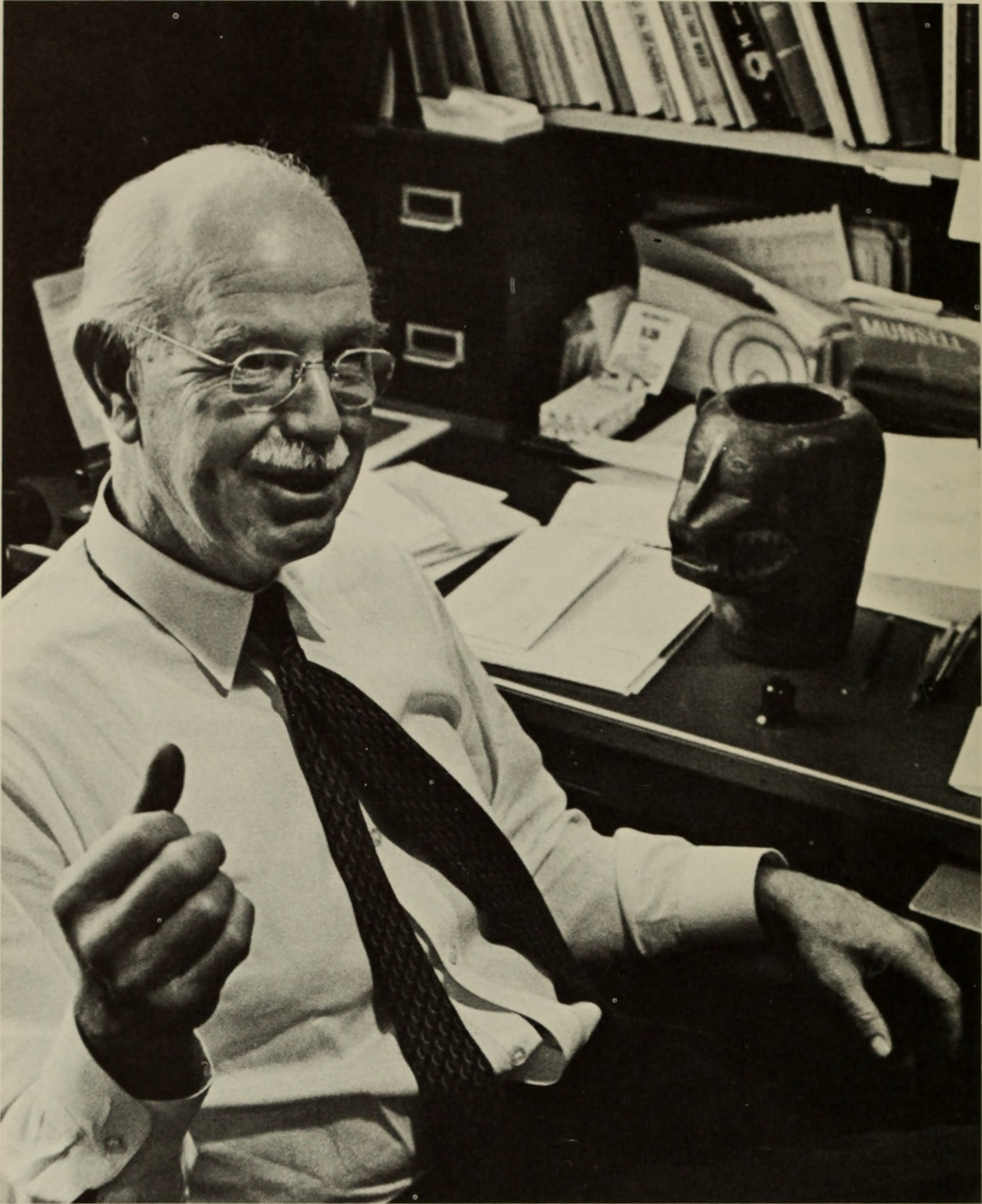 Title: A brief expedition into science at the American Museum of Natural History Identifier: briefexpeditioni00amer Year: 1969 (1960s) Authors: American Museum of Natural History Subjects: American Museum of Natural History; Naturalists; Natural history; Anthropology; Natural history museum curators Publisher: [New York? : The Museum?] Text Appearing Before Image: ' Text Appearing After Image: Junius B. Bird Curator of South American Archeology, Department of Anthropology Joined the Museum Staff in 1934 Residence: The Bronx